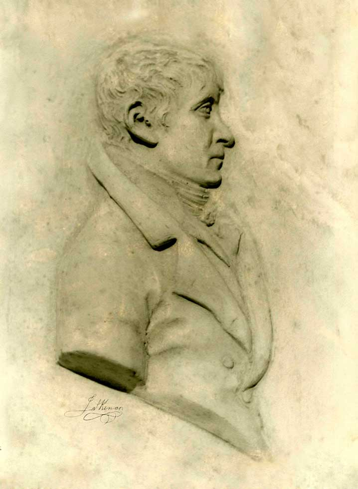 General James Kenan fought in the Revolutionary War; the town of Kenansville was named in his honor along with a Duplin county high school.